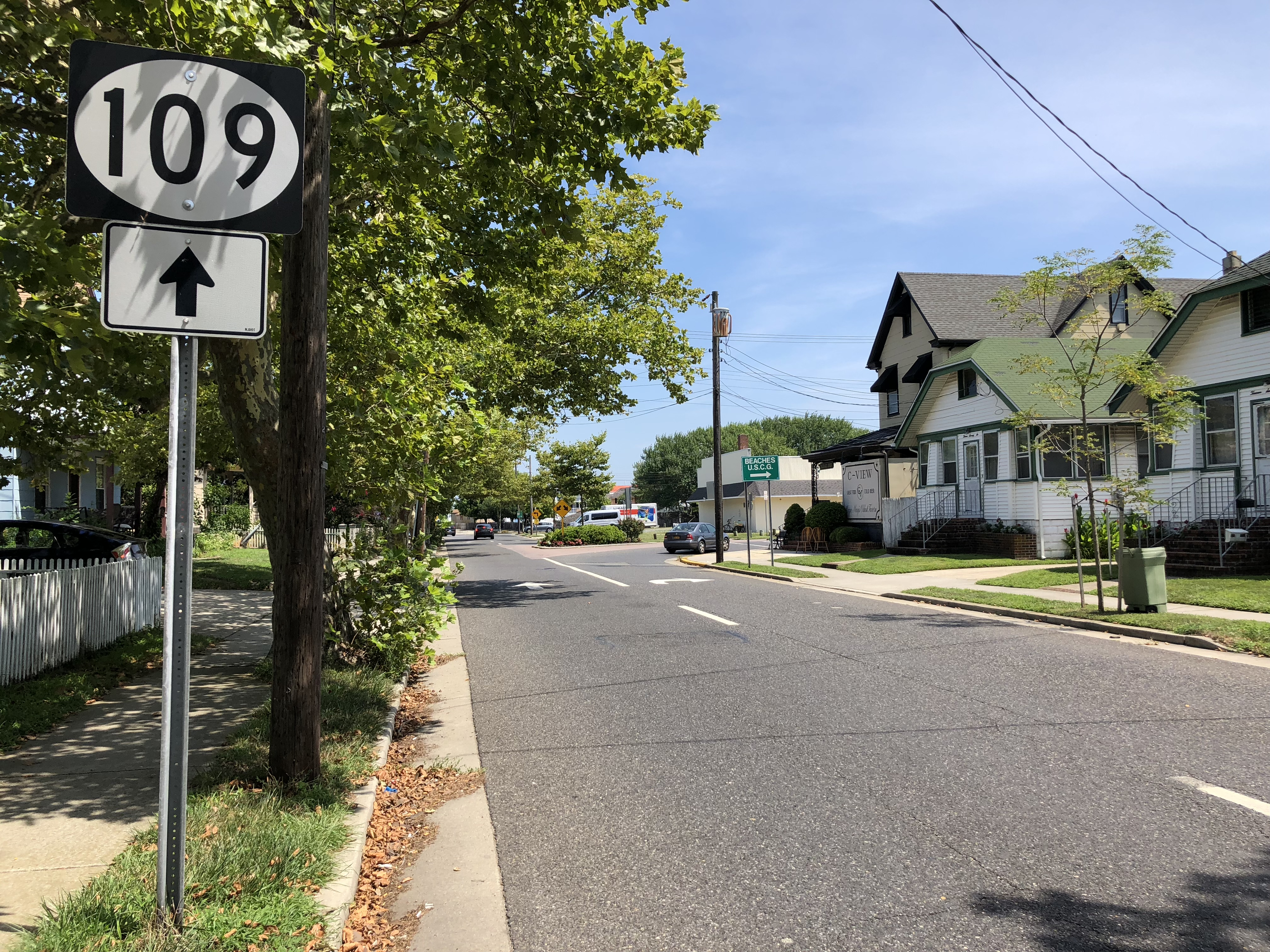 View north along New Jersey State Route 109 (Washington Avenue) between Sidney Avenue and Cape May County Route 622 (Texas Avenue) in Cape May, Cape May County, New Jersey